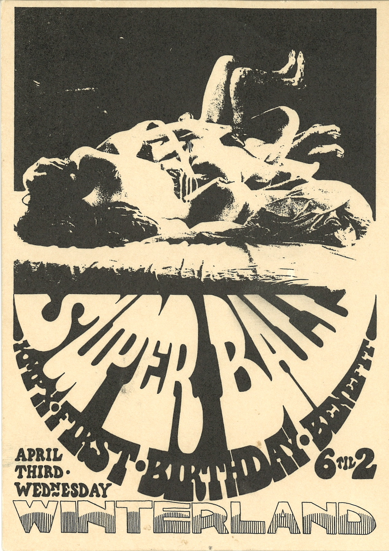 Placard for the first anniversary of KMPX radio at Winterland Arena in San Francisco, CA